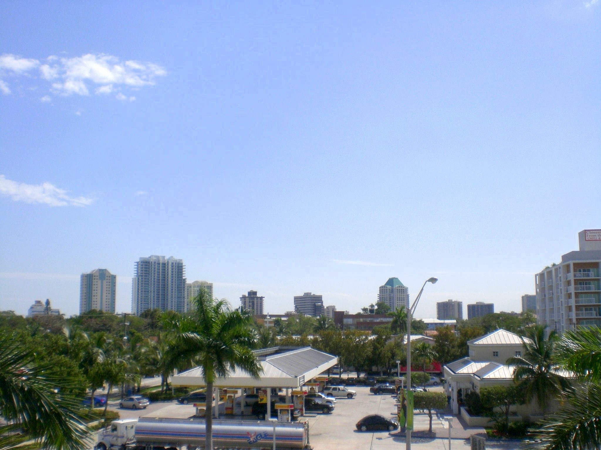 Digital photo taken by Marc Averette. Skyline of Coconut Grove, Miami, Florida as seen from respective Metrorail station. 3/5/2007.